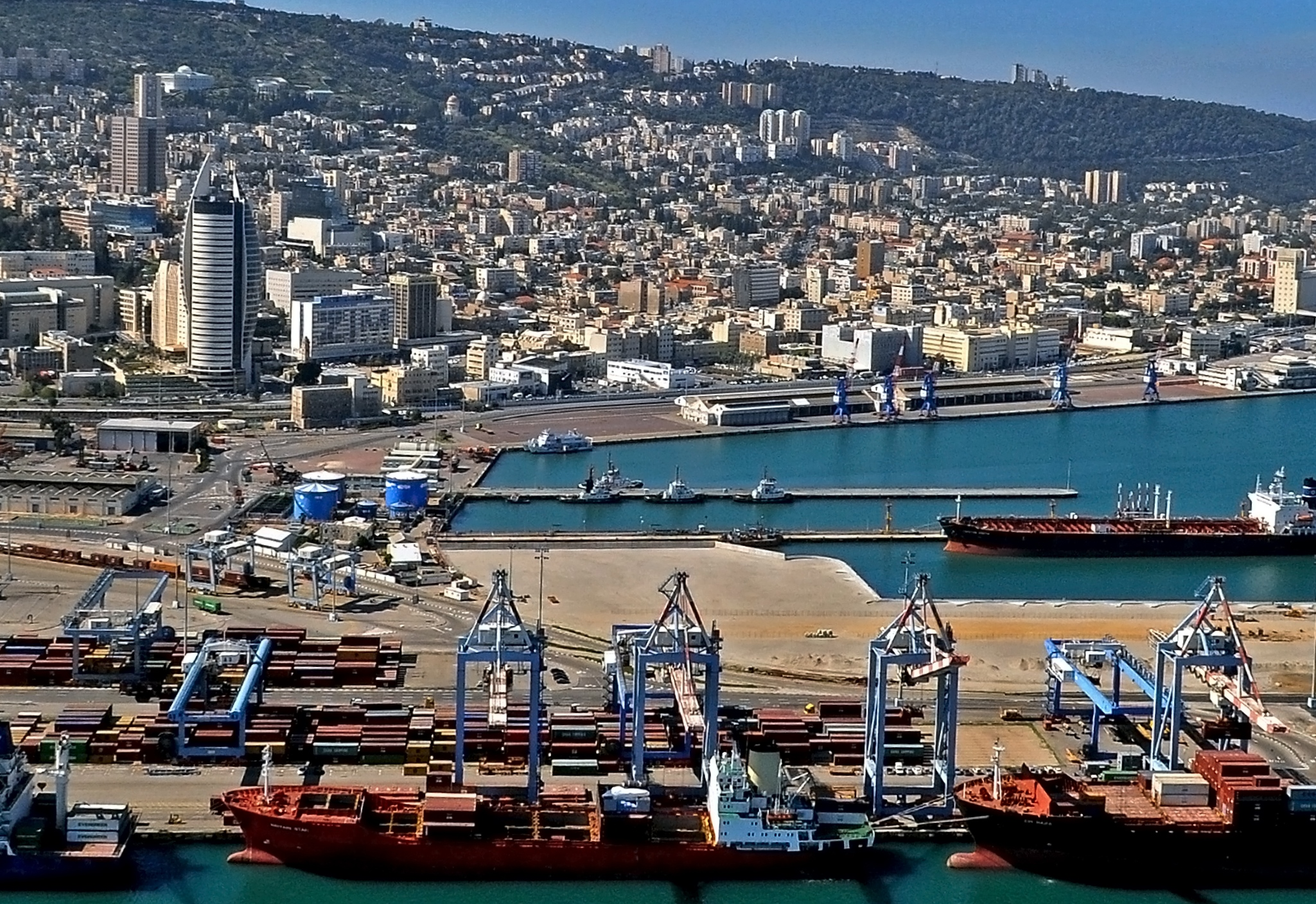 The Port of Haifa, the business district of the city and Carmel mountain